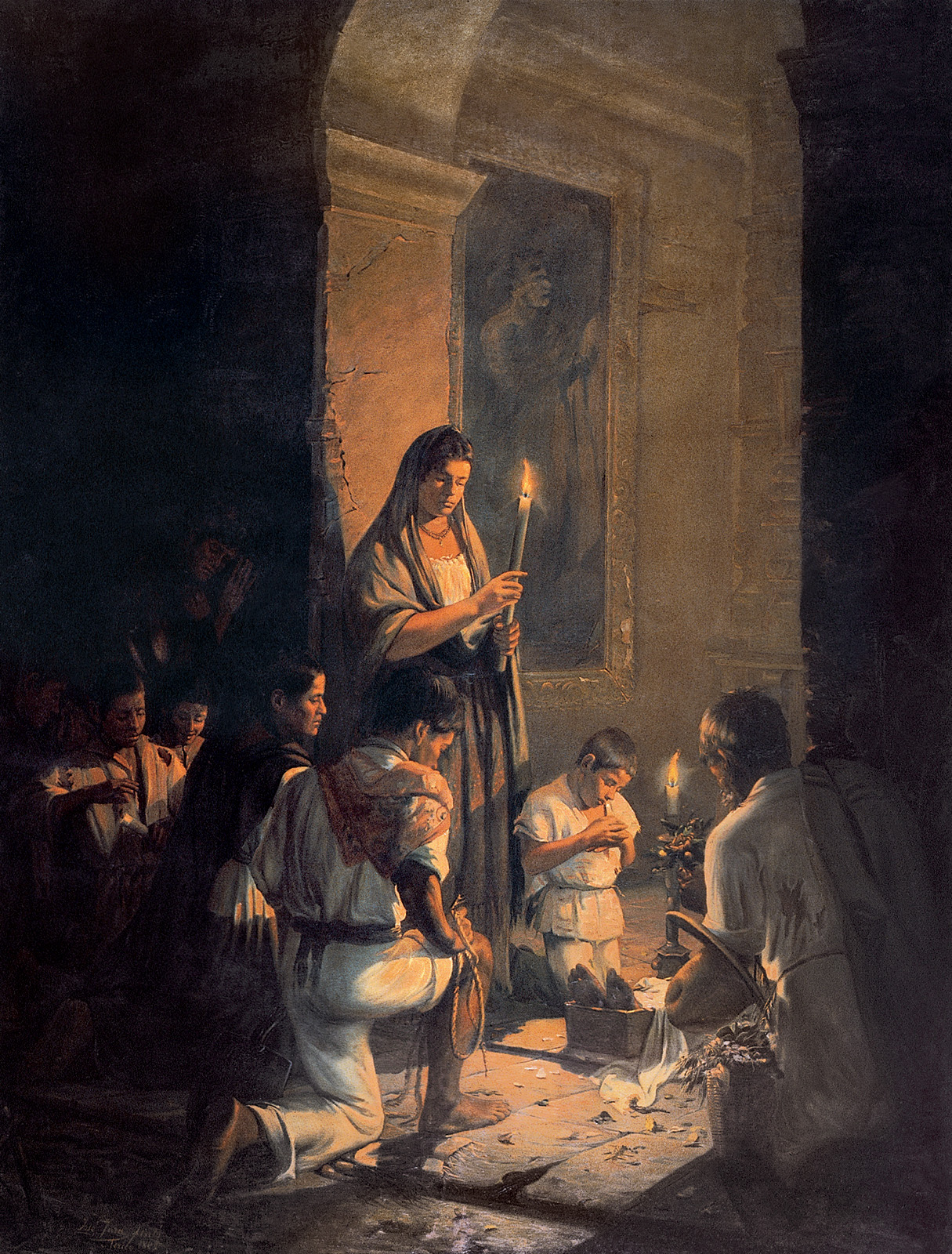 "El Velorio" by José María Jara (1866-1939) done in 1889 on display at the Museo Nacional de Arte in Mexico City